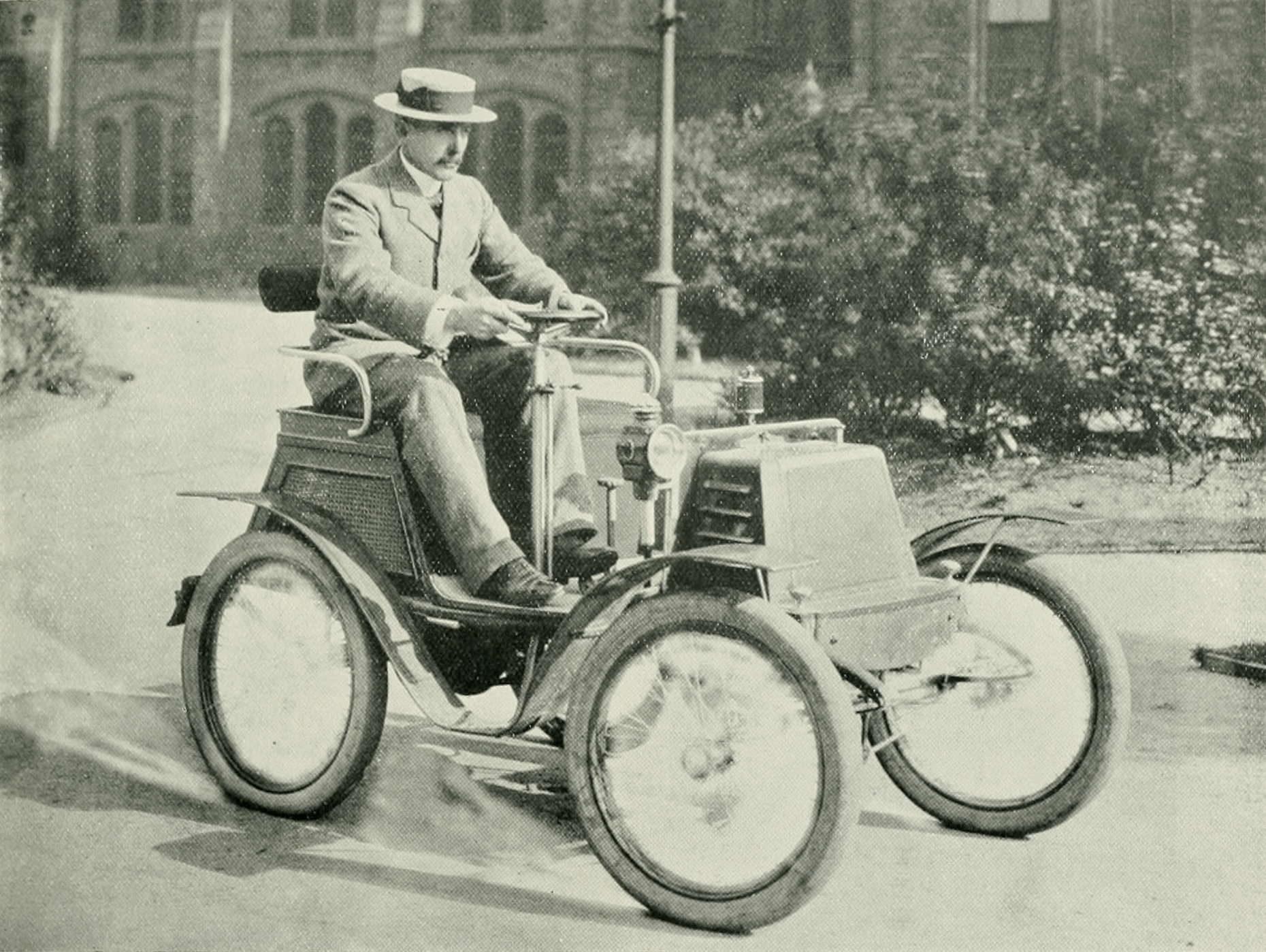 Photo of Professor Henry S. Hele-Shaw in Page's Magazine No. 2 from 1902. The photo appeared on page 181.